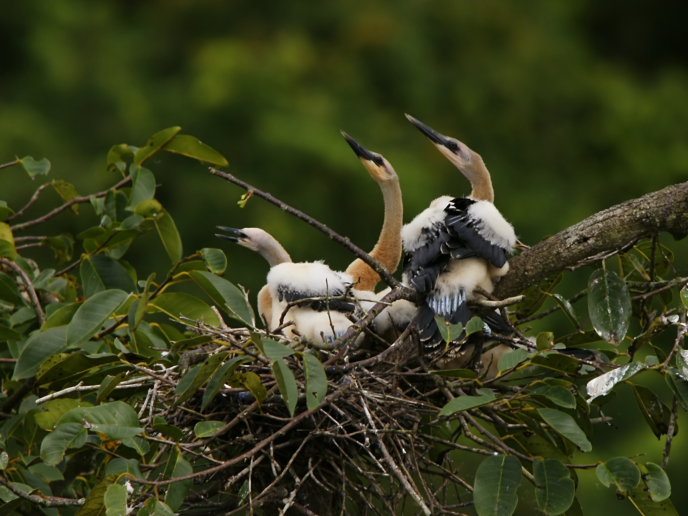 Juvenile Anhingas at Caño Negro, Costa Rica. Image taken from a small boat.